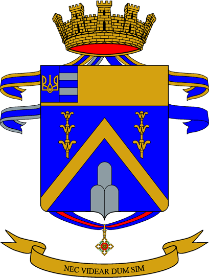 Coat of Arms of the 5° Alpini Regiment; Italian Army.